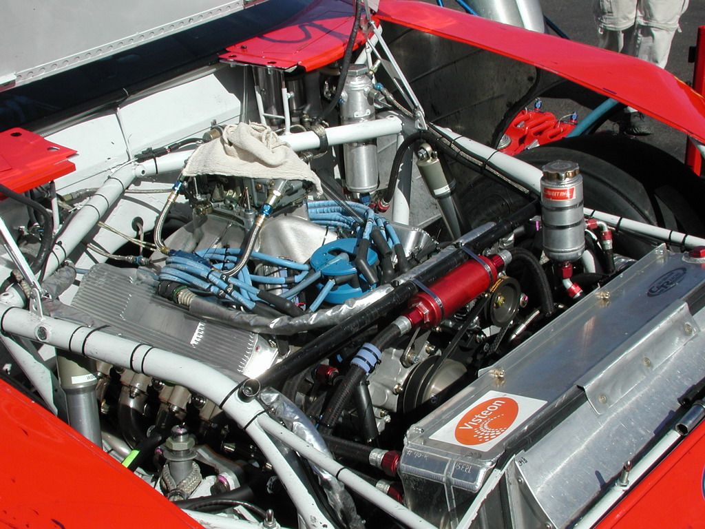 Engine compartment, Ricky Rudd #21